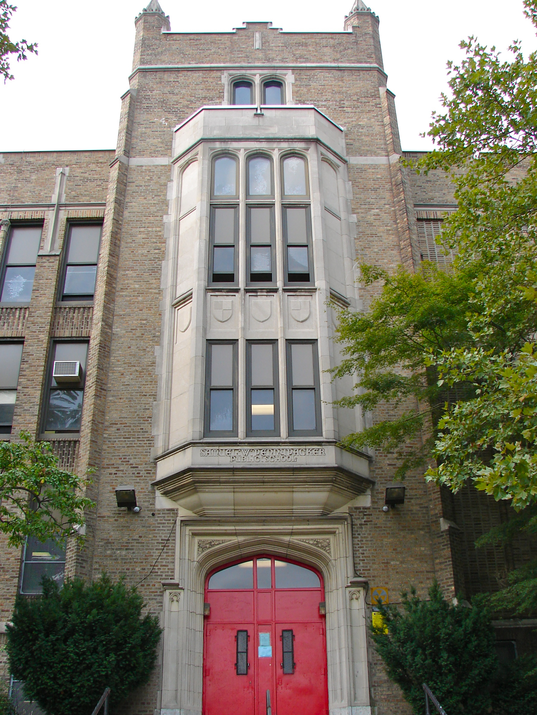 Samuel W. Pennypacker School in Philadelphia on the NRHP November 18, 1988. At 1858 East Washington Lane in the West Oak Lane of North Philly.